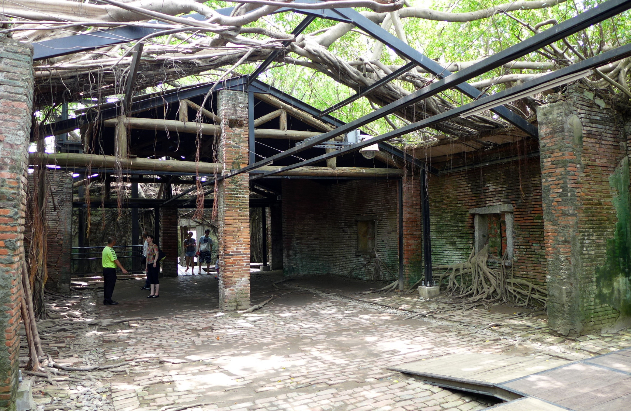 Anping Tree House